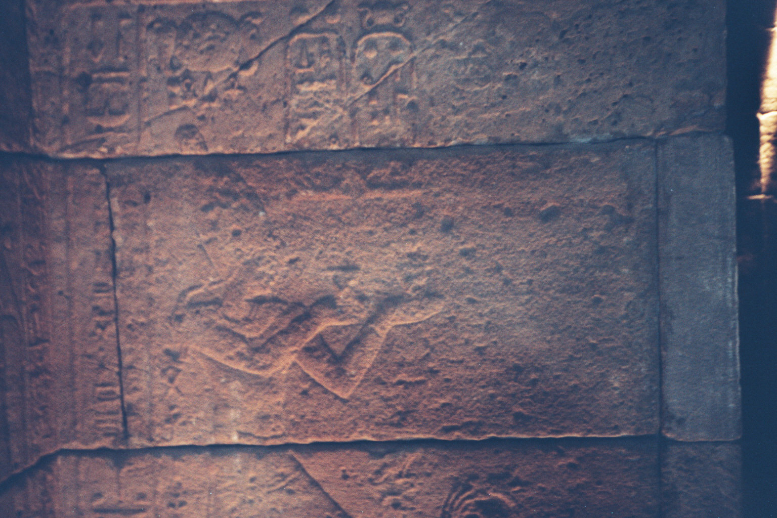 Description: Interior view of Temple of Debod, in Madrid. Source: Self-made, I release it into the public domain.